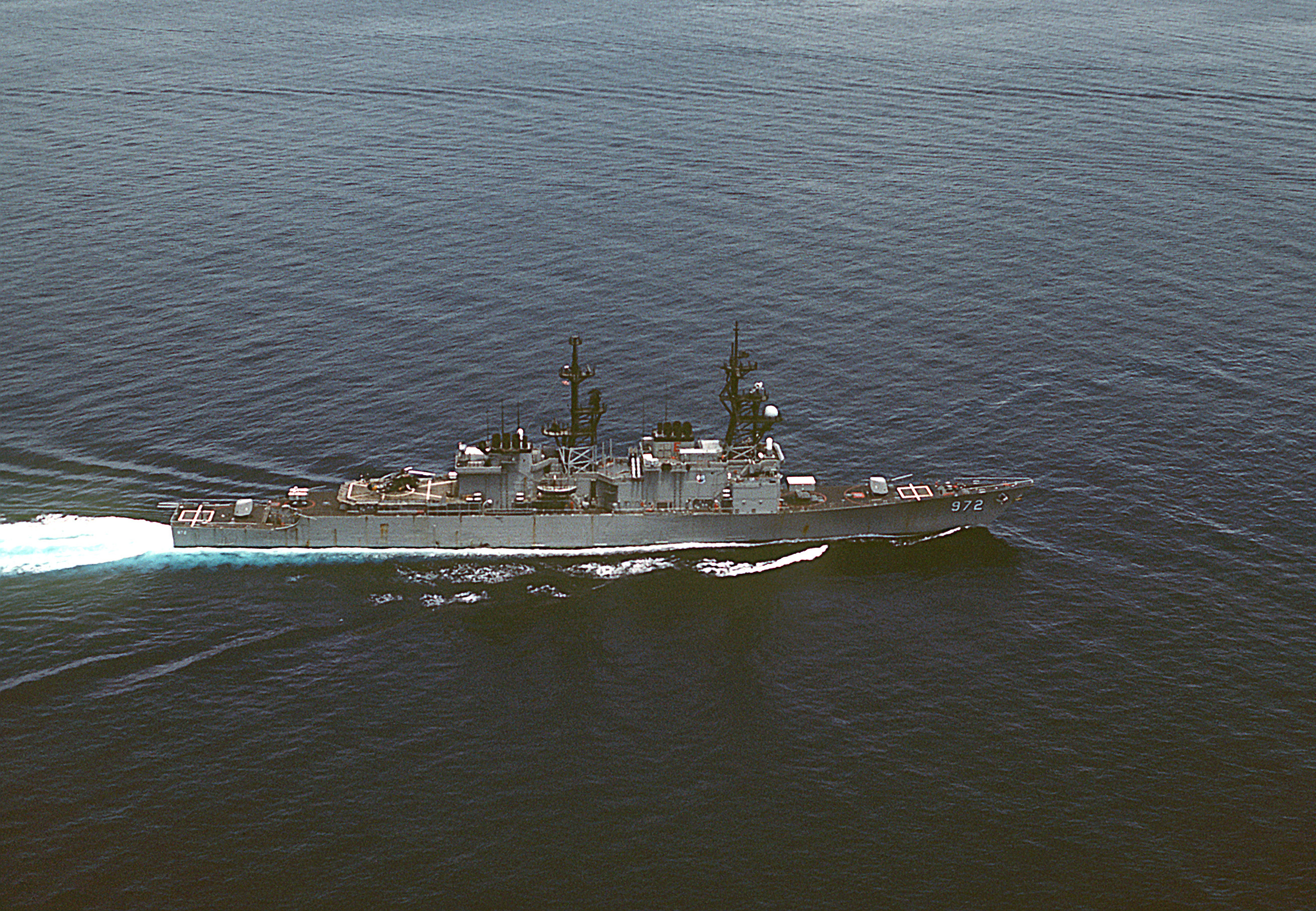 Aerial starboard beam view of the destroyer USS OLDENDORF (DD-972) underway.